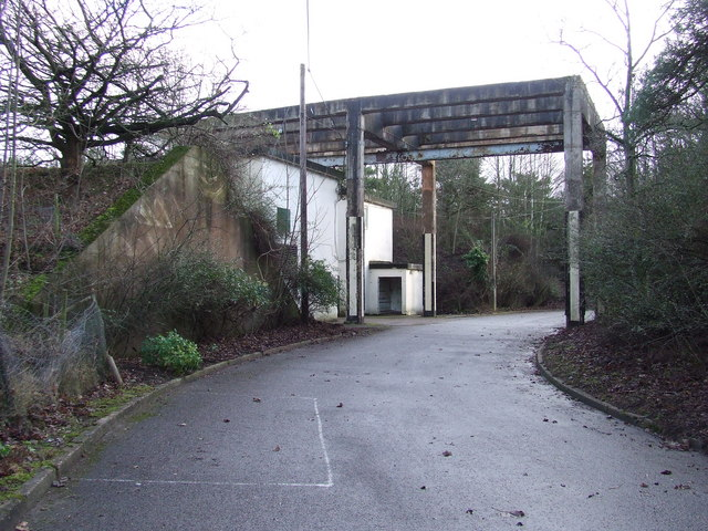 R.A.F. Barnham Part of the old R.A.F. Barnham, Suffolk bomb store now an industrial site. R.A.F. Barnham began in 1953 or 1954 and was completed by 1955. it was built specifically to store and maintain atomic weapons. For more info , , , and